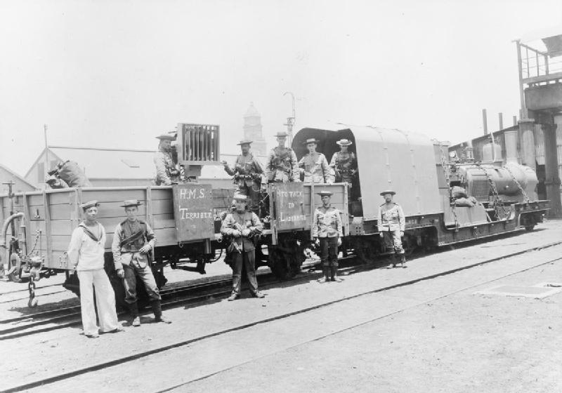 The Royal Navy 1899 - 1902 Royal Navy bluejackets of HMS Terrible pose by an armoured train at Durban during the Boer War. Mounted on the flatbed carriage is an improvised signal lamp consisting of a searchlight and shutter mechanism, powered by a dynamo attached to the train. The officer to the right of the image is possibly Capt Percy Scott RN. The tower of Durban Post Office can be seen in the background.